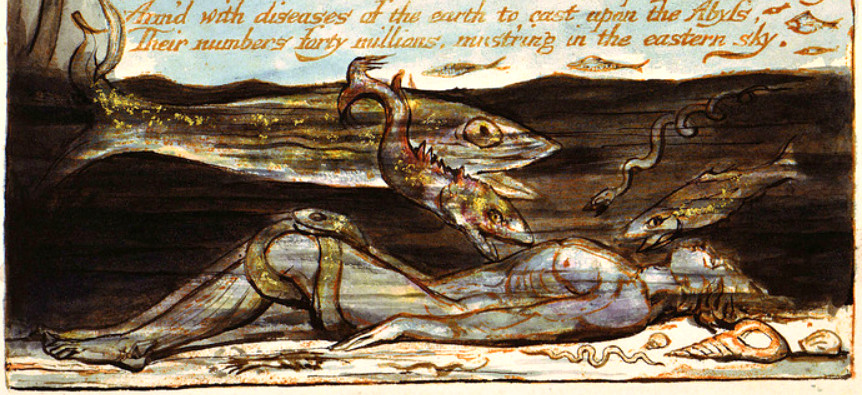 Fish - America a Prophecy, object 15, Copy O, 1821, Fitzwilliam Museum - detail